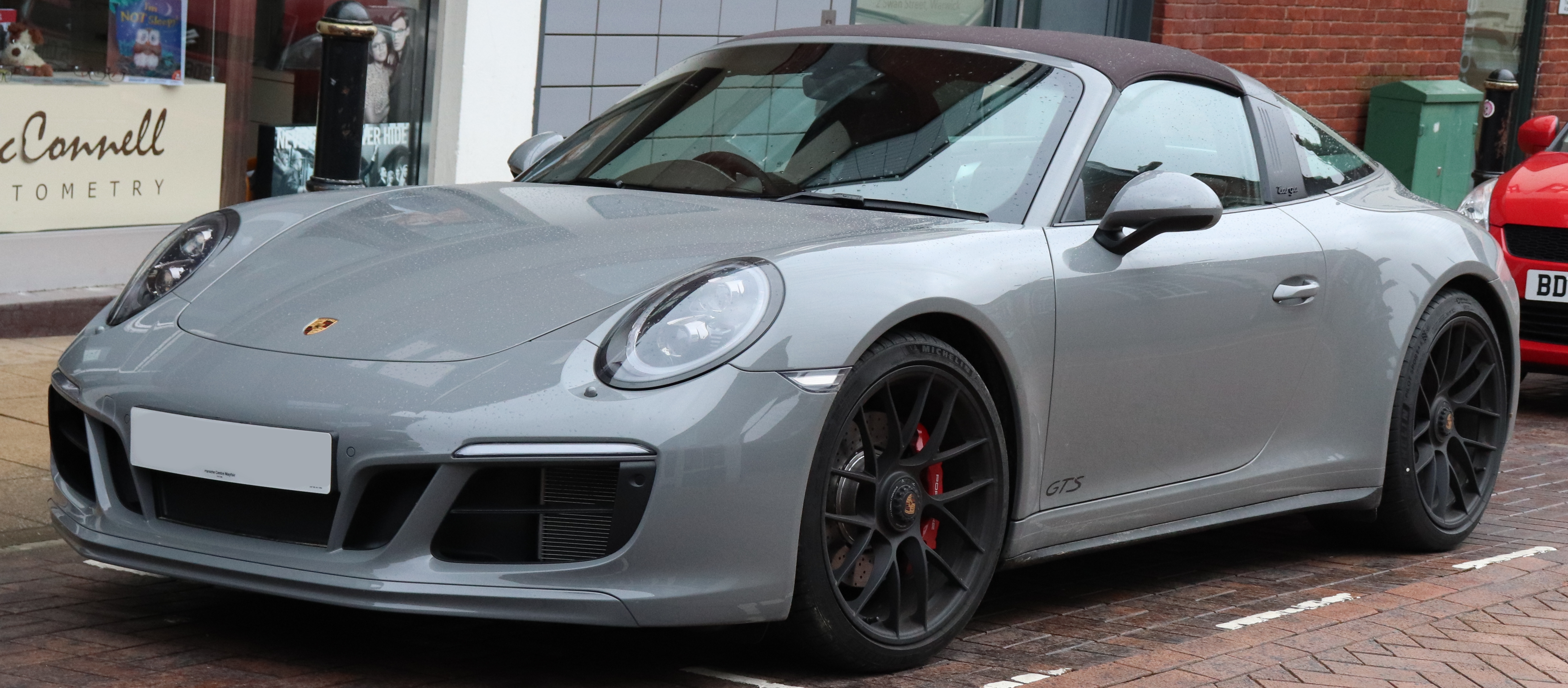 2018 Porsche 911 Targa 4 GTS S-A 3.0 Front Taken in Warwick